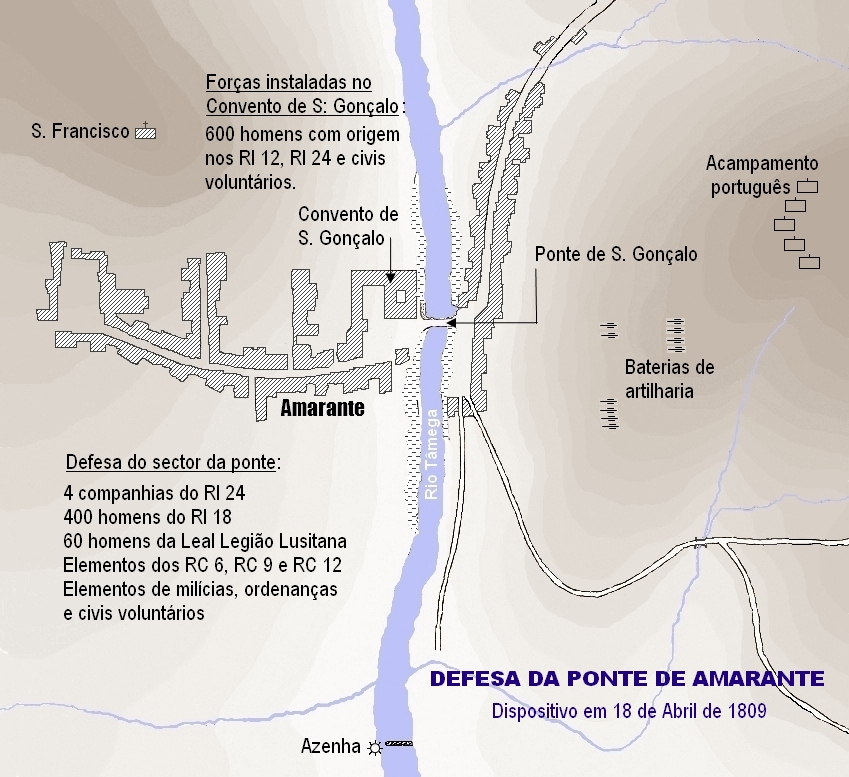 Schematic of defending the bridge of S. Gonçalo, Amarante, on April 18, 1809.